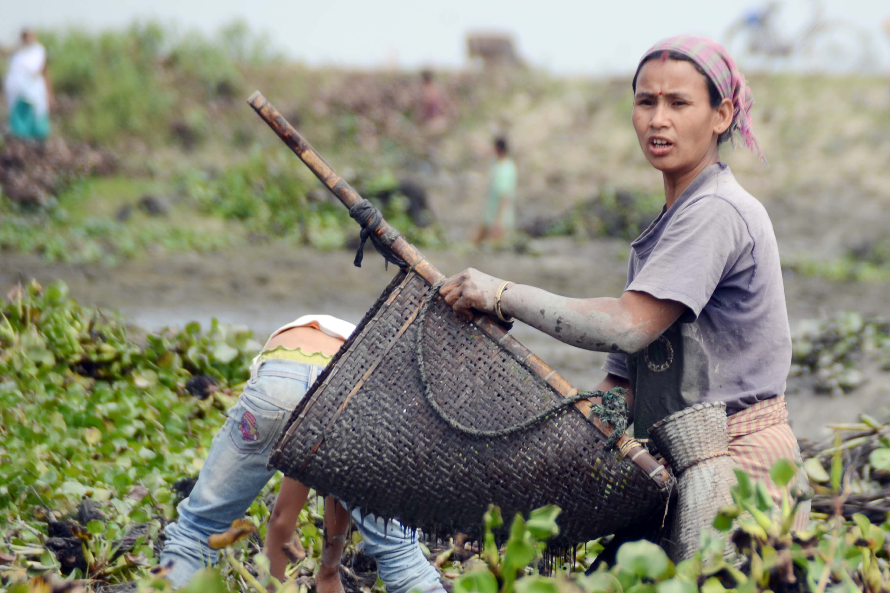 An Indigenous Assamese Tiwa tribal woman during community fishing